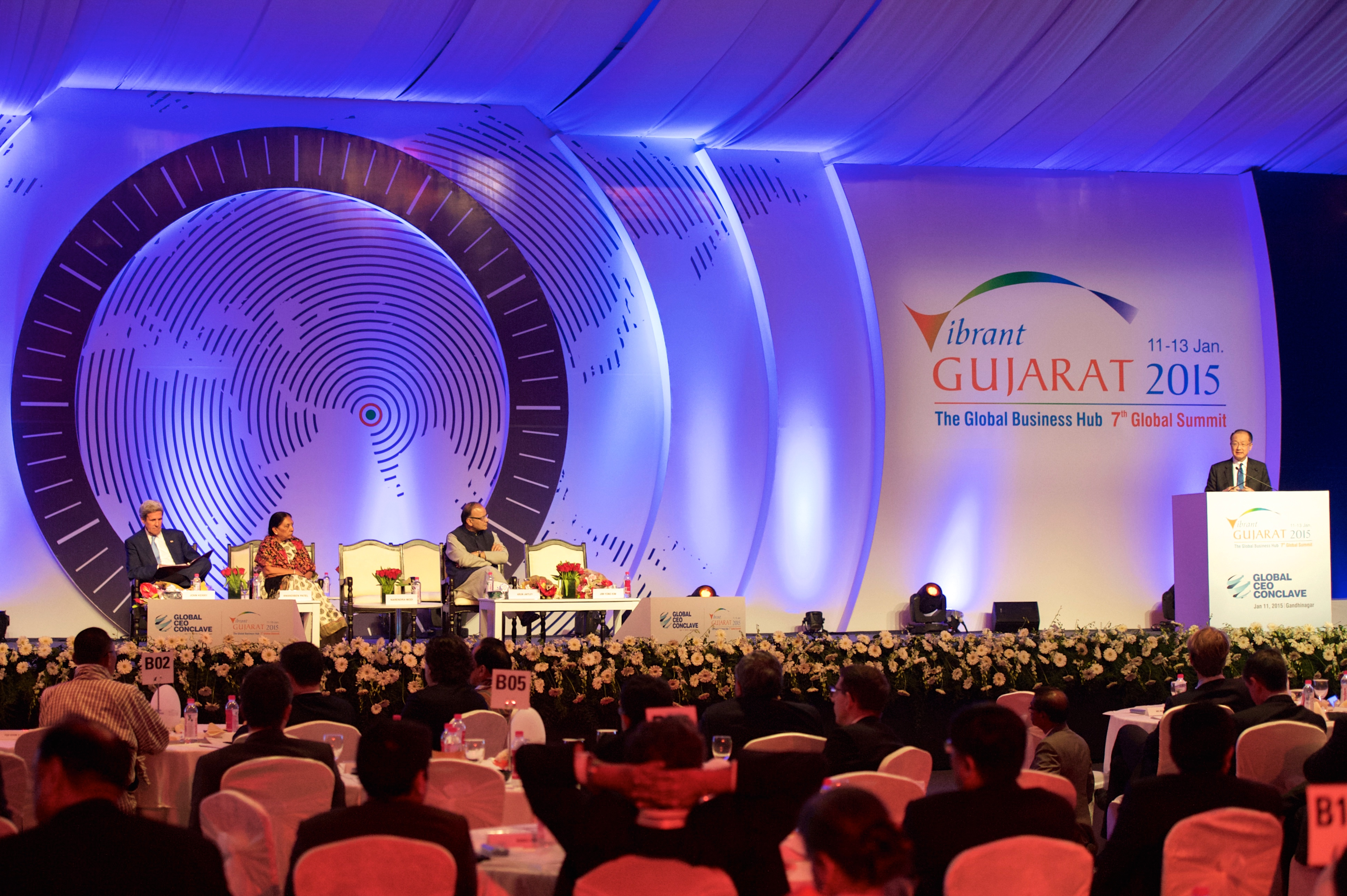 U.S. Secretary of State John Kerry checks his notes and listens as World Bank President Jim Yong Kim addresses attendees at the Global CEO Conclave at the end of the 7th Vibrant Gujarat Summit in Gandhinagar, India, on January 11, 2014. [State Department photo/ Public Domain]